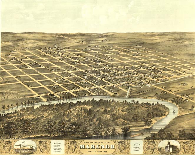 Overview of Marengo, Iowa in 1868.